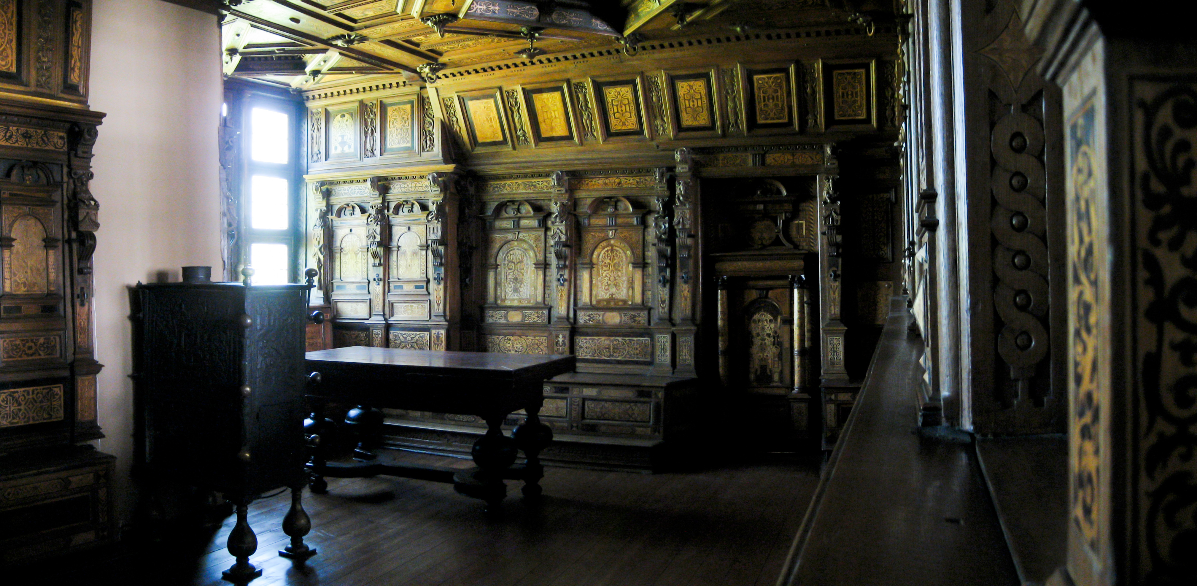 Chapel, Box, Gottorf Castle